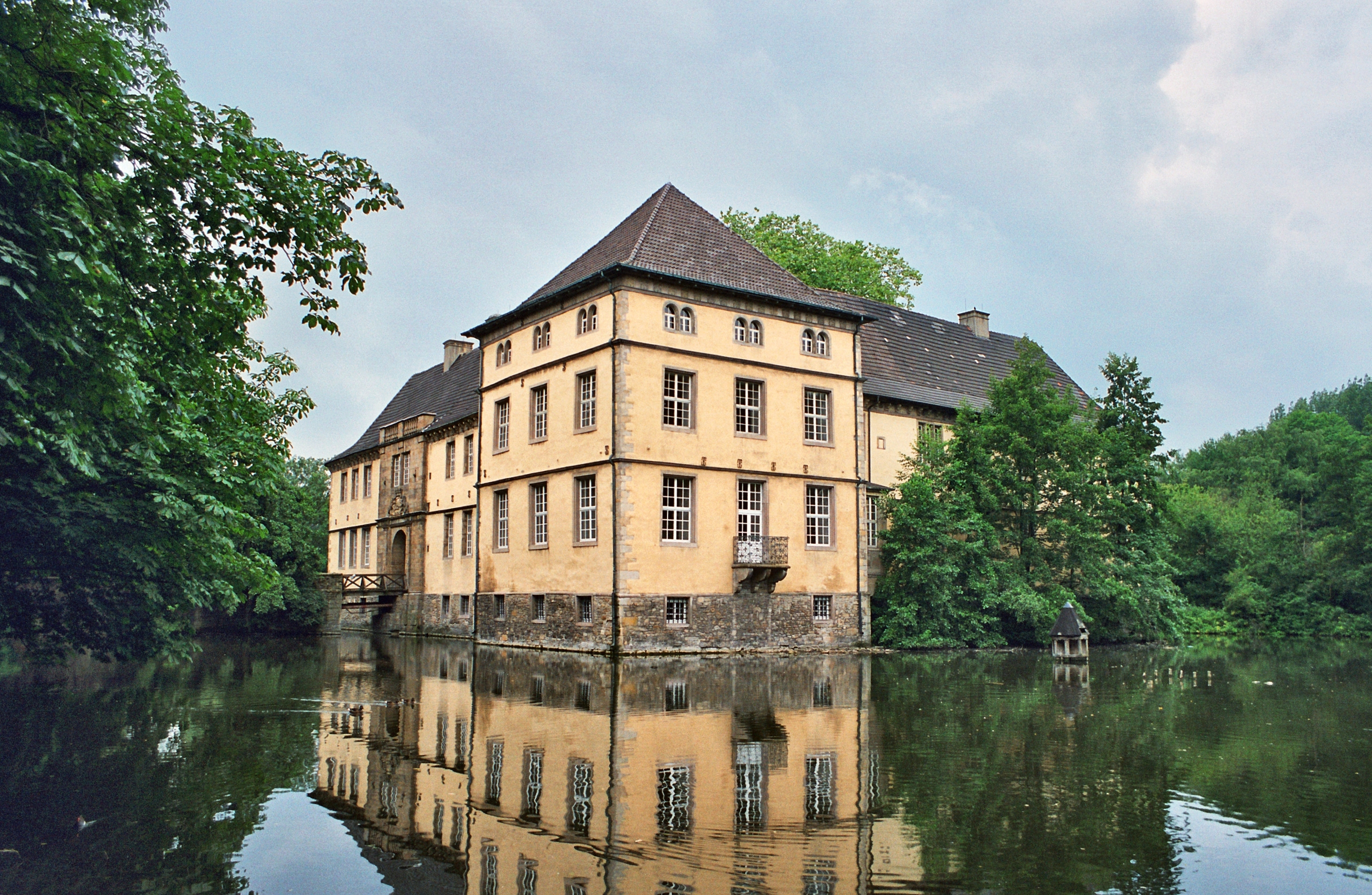 Castle Struenkede in Herne, Germany